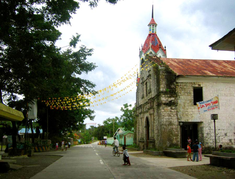 The Santo Niño Catholic Church in the town of Malitbog, Southern Leyte